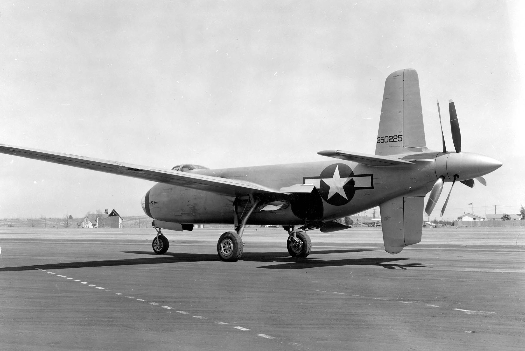 Douglas XB-42 rear view, closeup of contraprop & cruciform tail